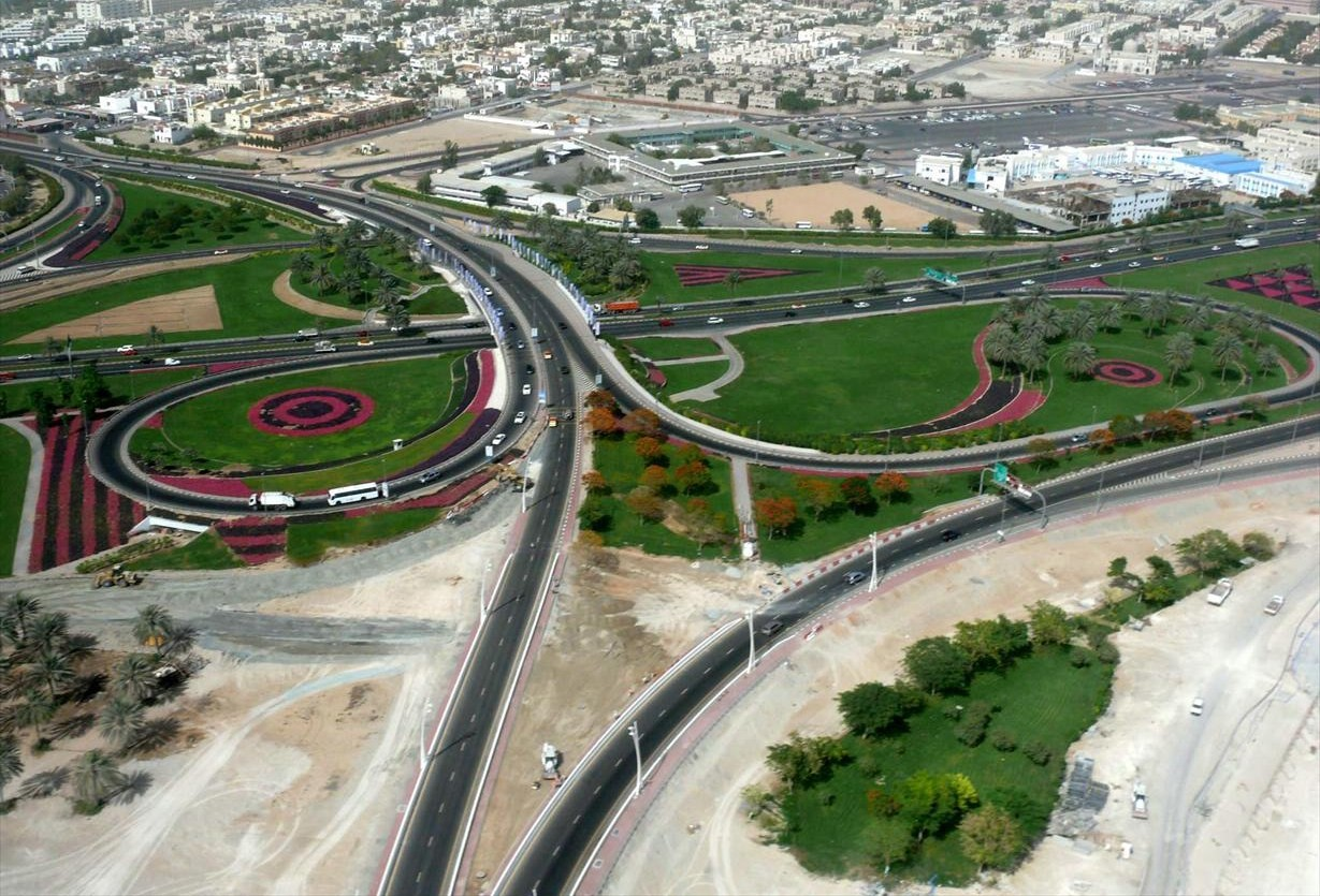 This is an aerial photo of an interchange in Al Garhoud, Dubai, United Arab Emirates on 8 May 2008. The interchange connects Al Garhoud Bridge, Al Garhoud Expressway (E 11), Umm Ramool Road (D 83) and D 70. Al Garhoud Bridge is behind the photographer and Dubai International Airport (not visible) is straight ahead.